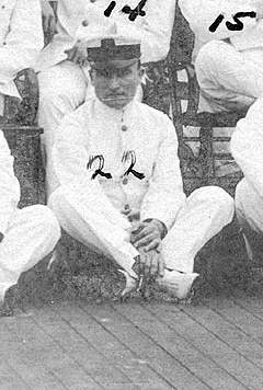 Mons Monssen sitting aboard the USS Iowa. This image is cropped from a USN photo.